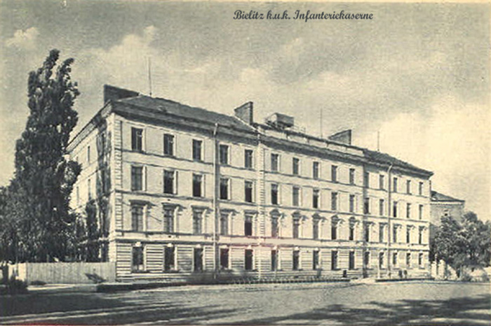 Faculty of Health Sciences University of Bielsko-Biała, former infantry barracks.